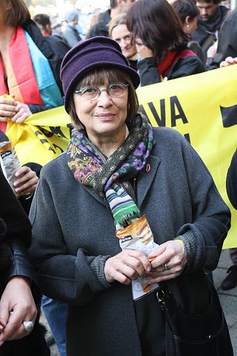 Nataša Kandić at first successful gay pride parade in Belgrade.